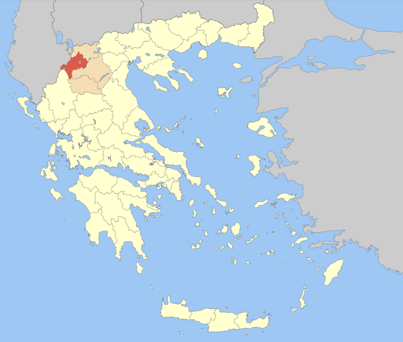 Locator map of Kastoria prefecture (Νομός Καστοριάς) in Greece